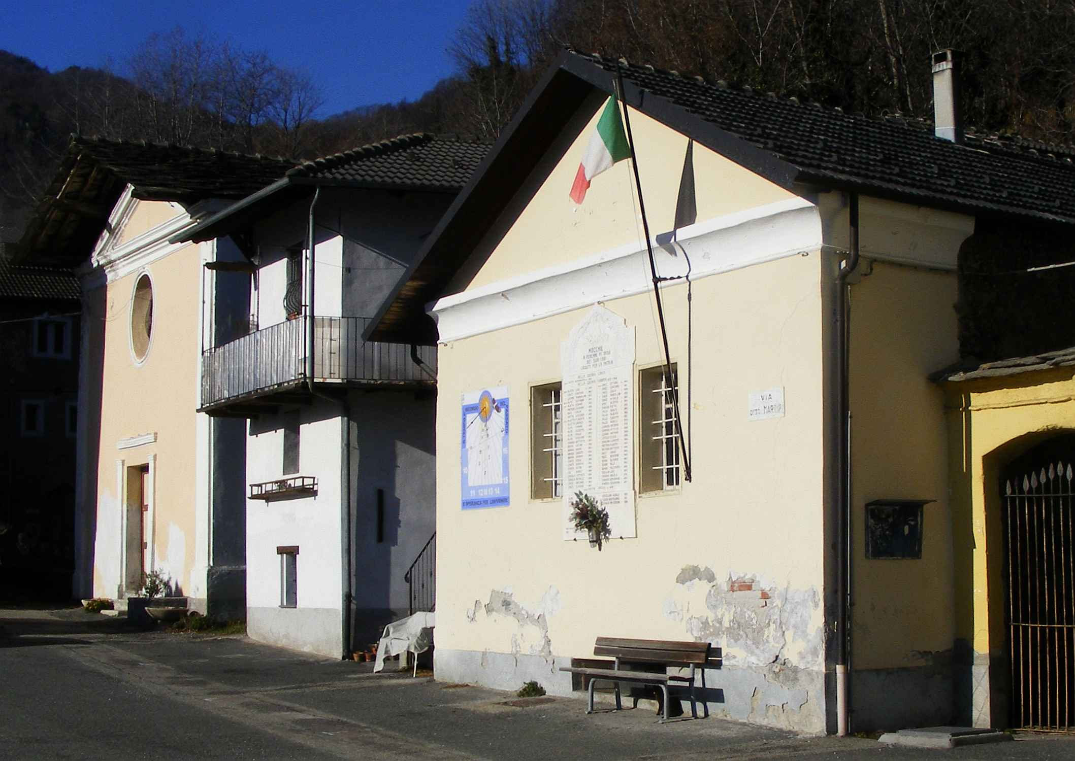 Mocchie (Condove, TO, Italy): former town hall, now museum of local history